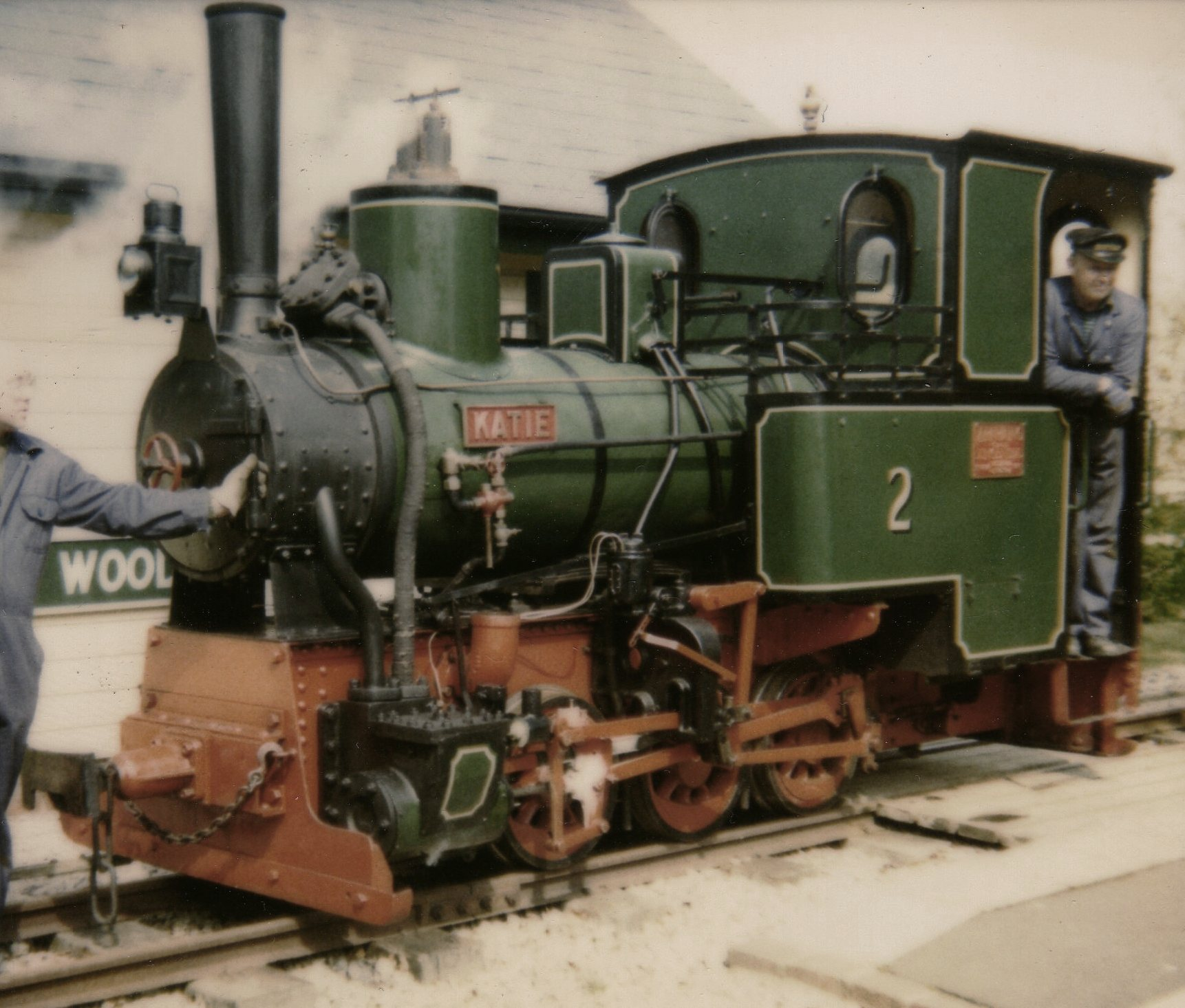 Arne-Jung no 3872 of 1931 at Warren Wood Station, B&WLR